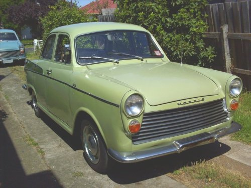 Morris Major Elite - car built in Sydney, N.S.W by the British Motor Corporation (Australia) from 1962-64.